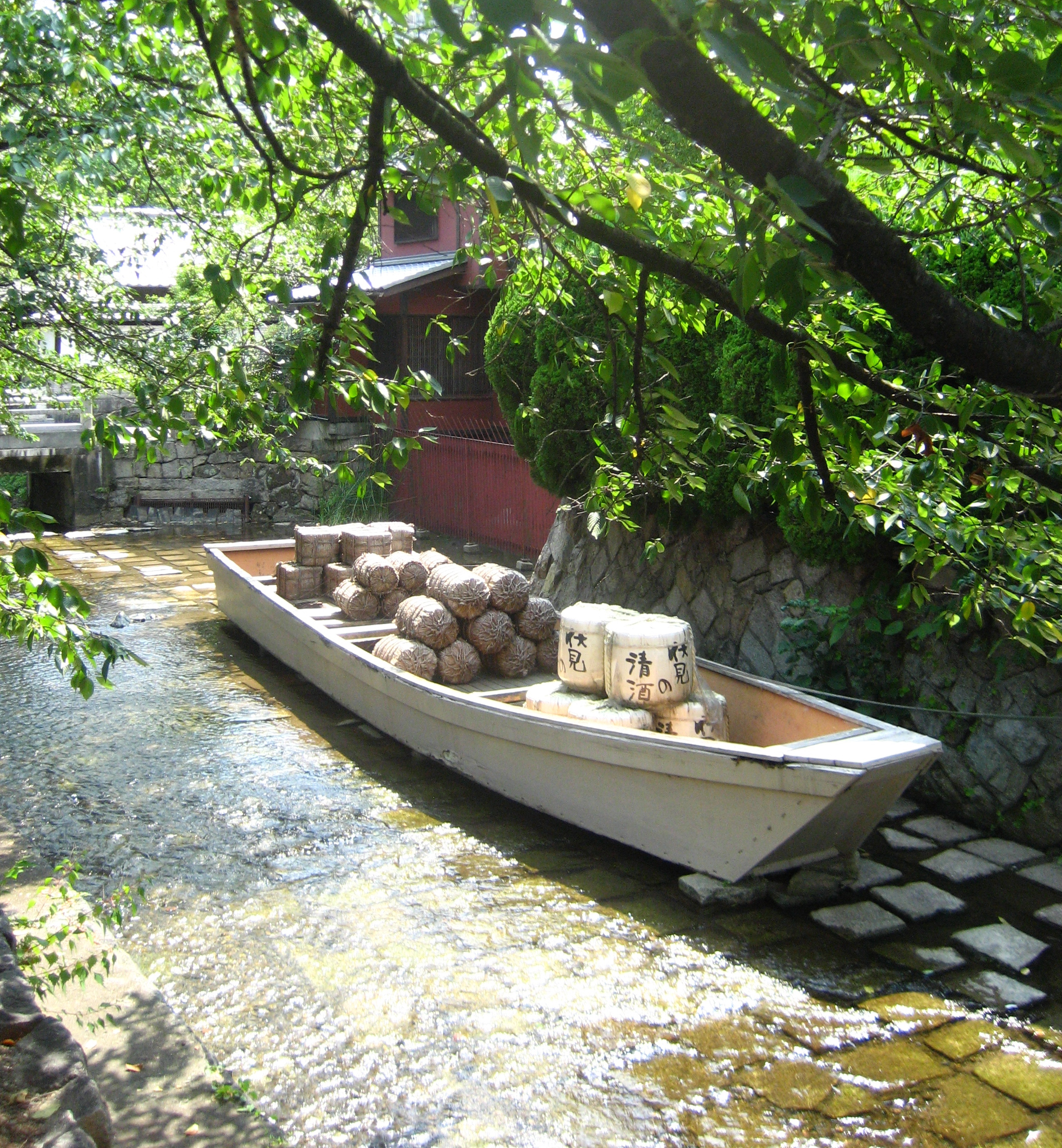 Takase-bune(mock-up) which was put in "Ichino-Funairi" of Takase River, Kyoto, Japan